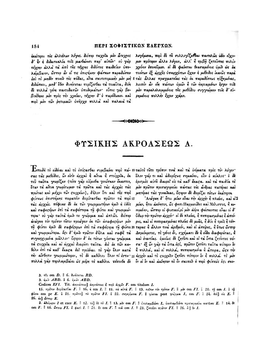 Page 184 of the Aristotelis Opera, edited by Immanuel Bekker, 1831.